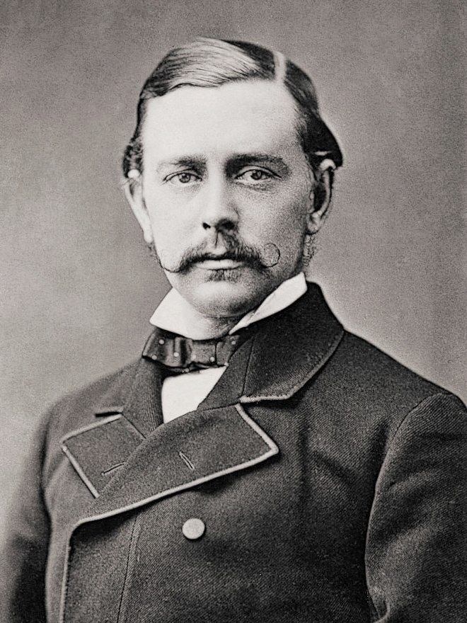 George Harris, 4th Baron Harris